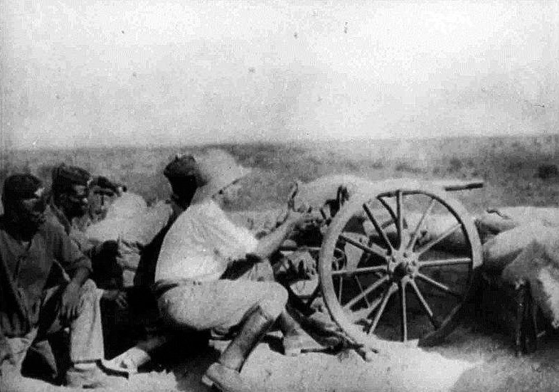 A German officer fires a large gun in Garua during the Kamerun Campaign (1914-1916)